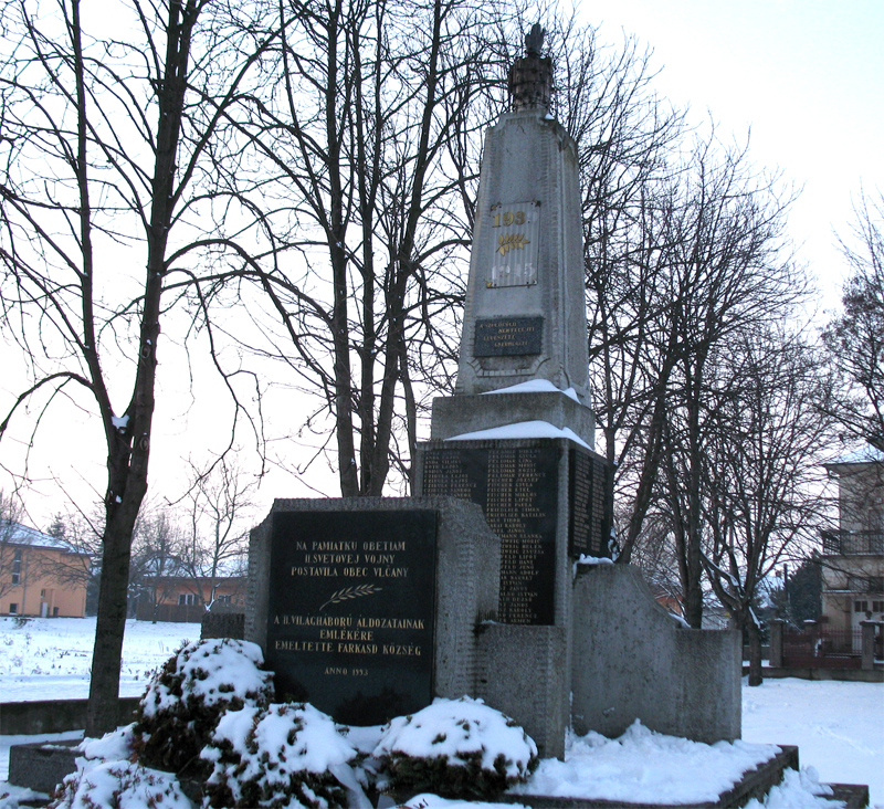 war memorial of Vlčany